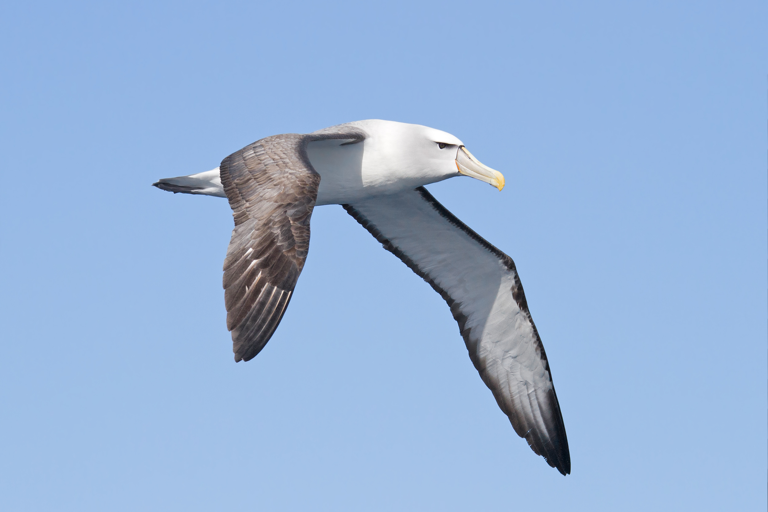 Shy Albatross (Thalassarche cauta) in flight, East of the Tasman Peninsula, Tasmania, Australia